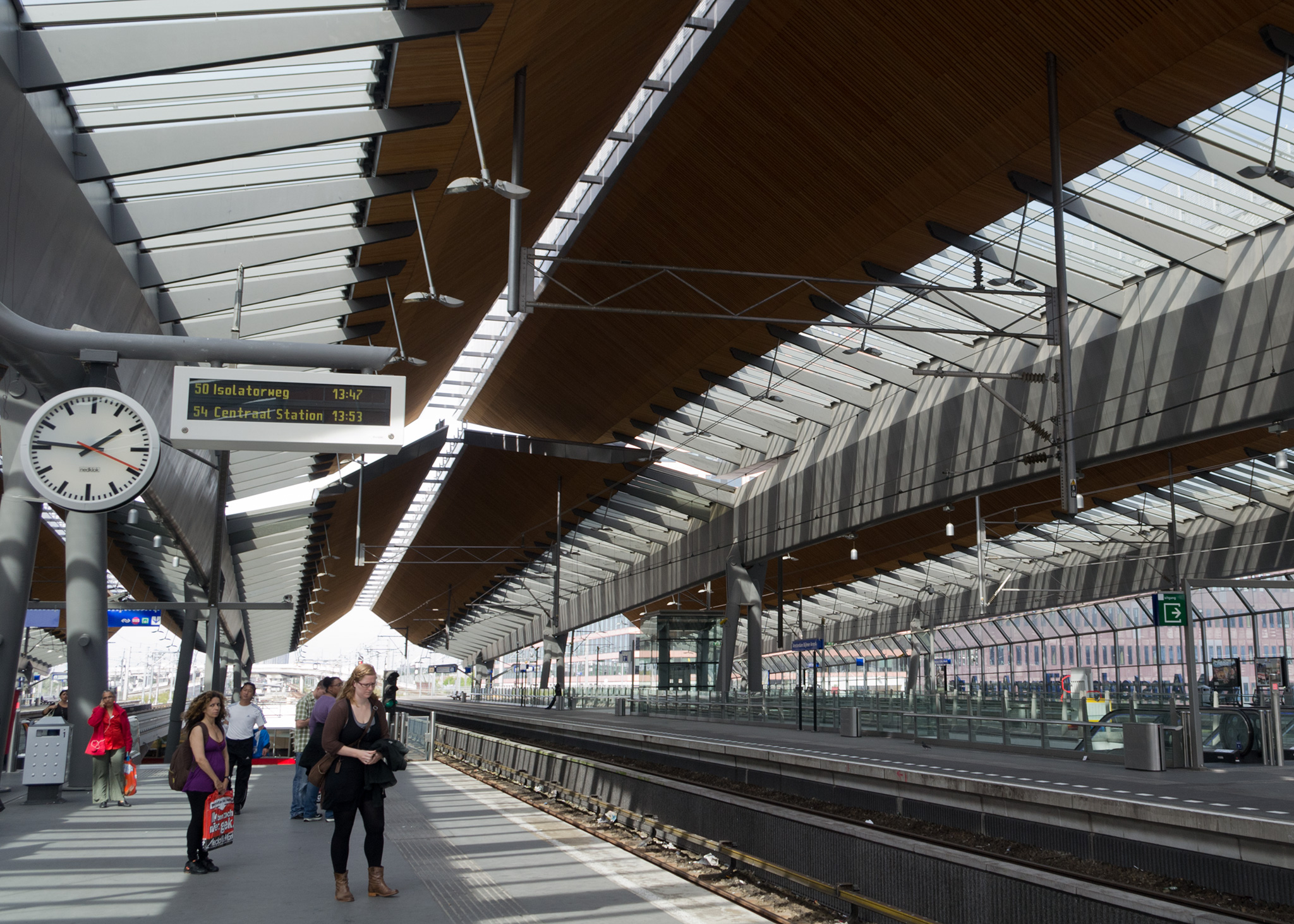 Metro platform at Amsterdam Bijlmer ArenA Station on a quiet summer afternoon. A sign shows trains bound for Centraal Station and Isolatorweg.